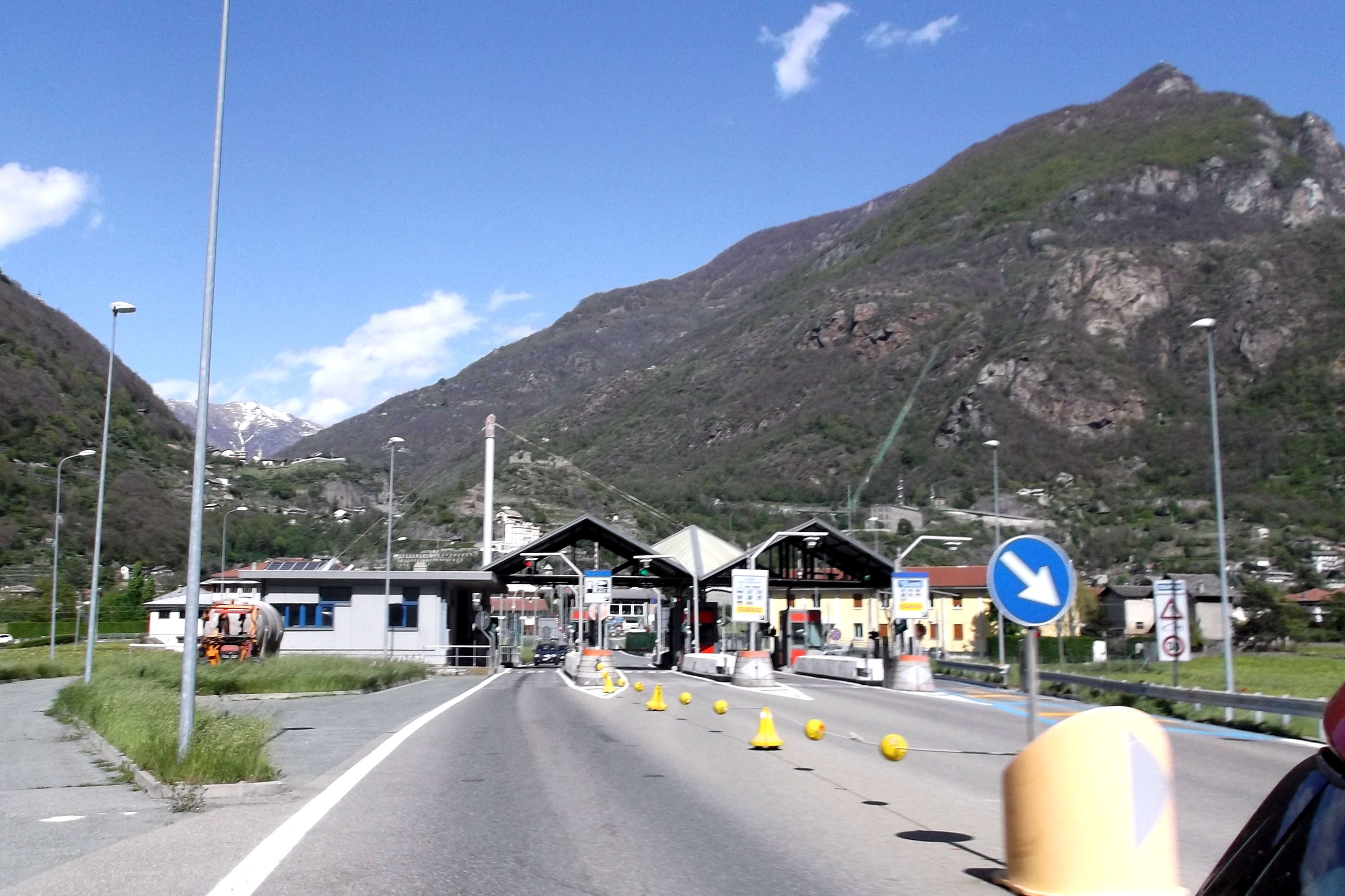 Italian motorway A5 toll booths at Pont Saint Martin, Aosta Valley